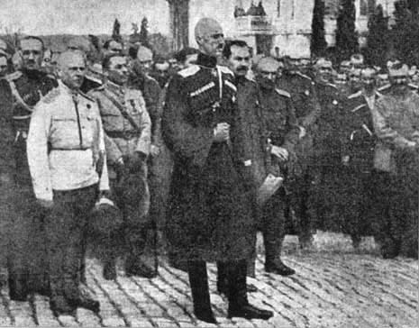 General Pyotr Wrangel in Sevastopol at an Orthodox Christian prayer vigil, after accepting command of the White forces